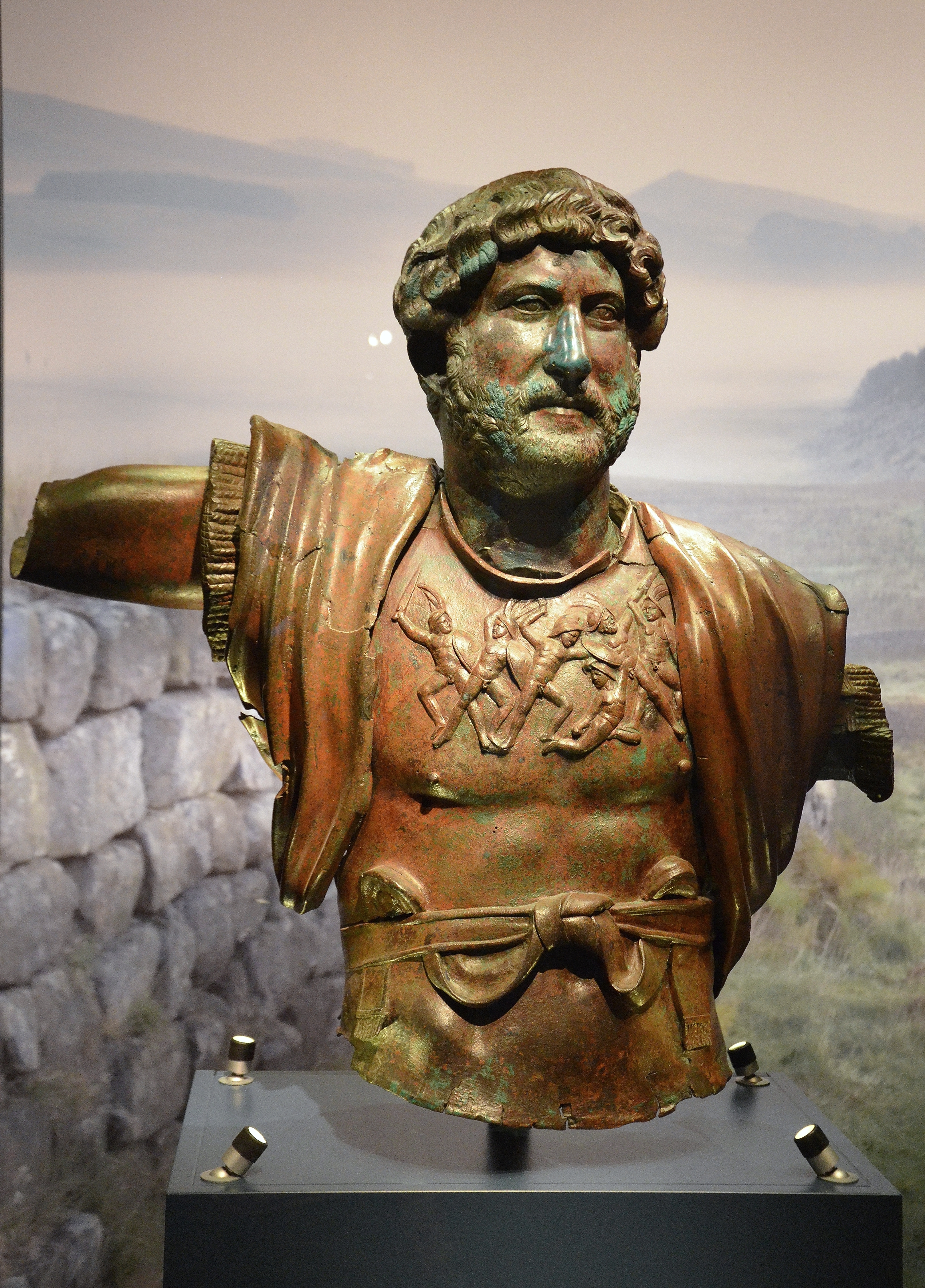 Hadrian: An Emperor Cast in Bronze, Israel Museum Hadrian: An Emperor Cast in Bronze